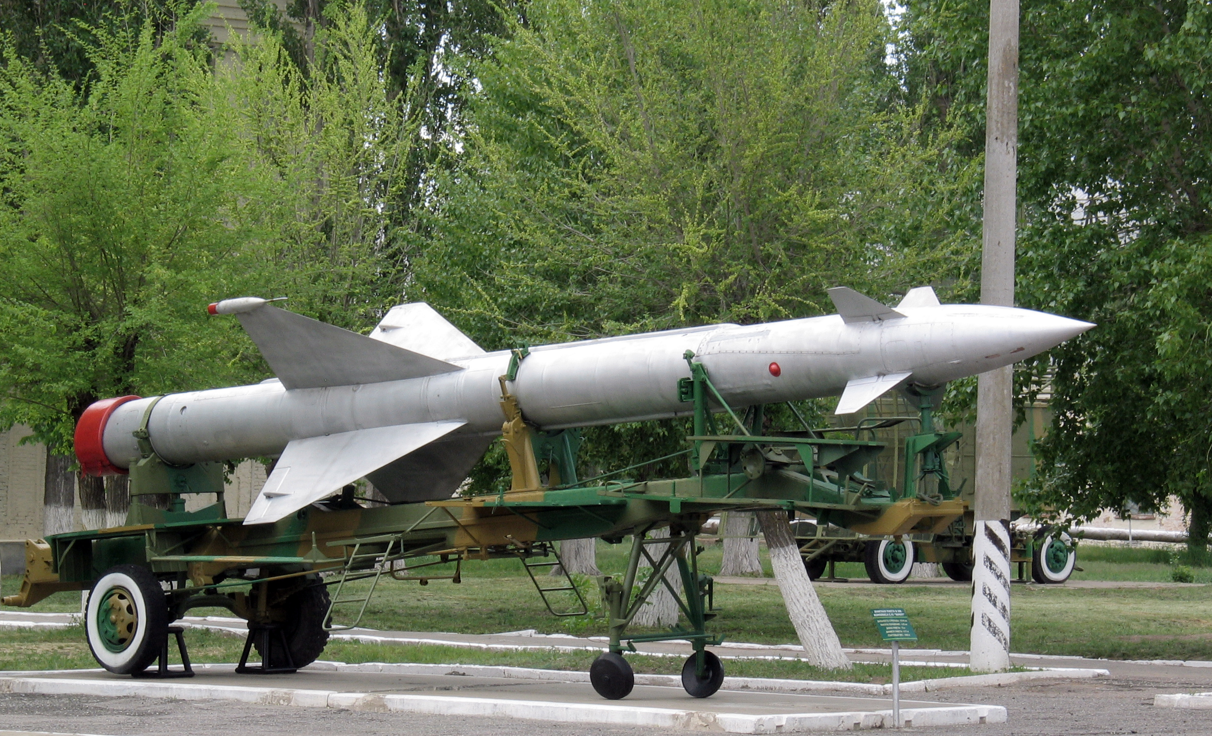 S-25 (NATO reporting name SA-1 Guild) Soviet designed high-altitude, command guided, surface-to-air missile (SAM) system for Moscow air defence. Kapustin Yar museum in Znamensk, Russia.